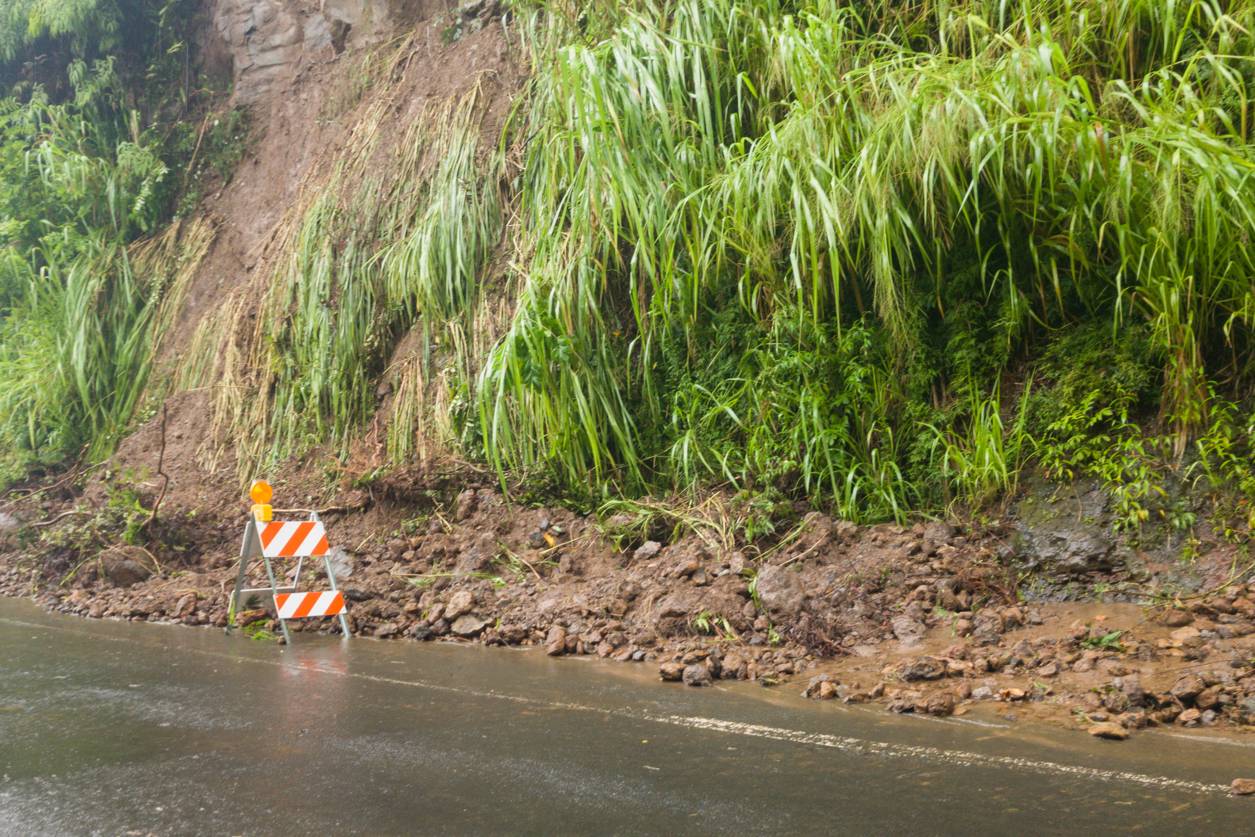 Landslide in Hilo during hurricane Lane 2018 Hawaii